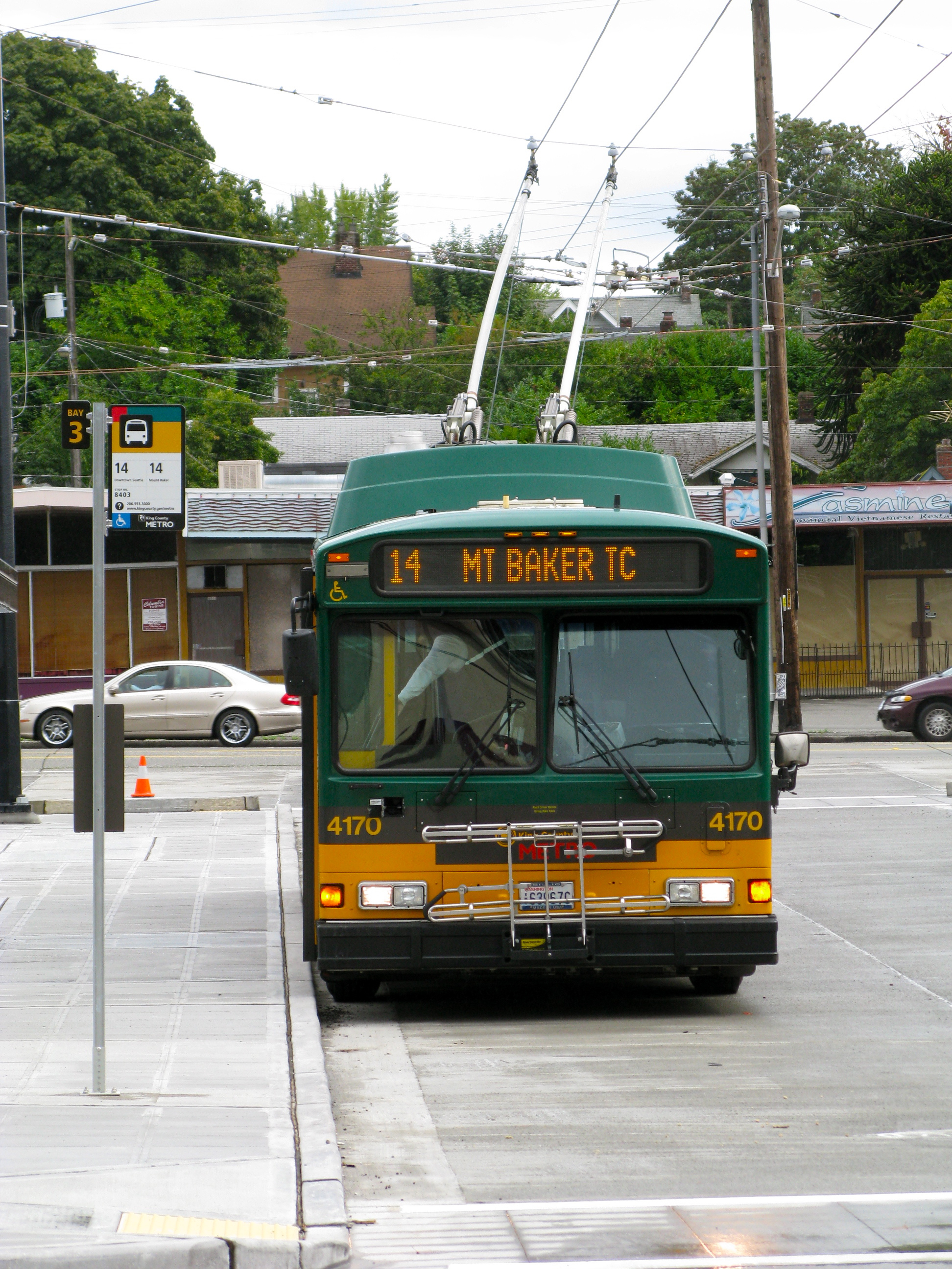 Gillig 40-ft Electric Trolley Bus, Coach 4170